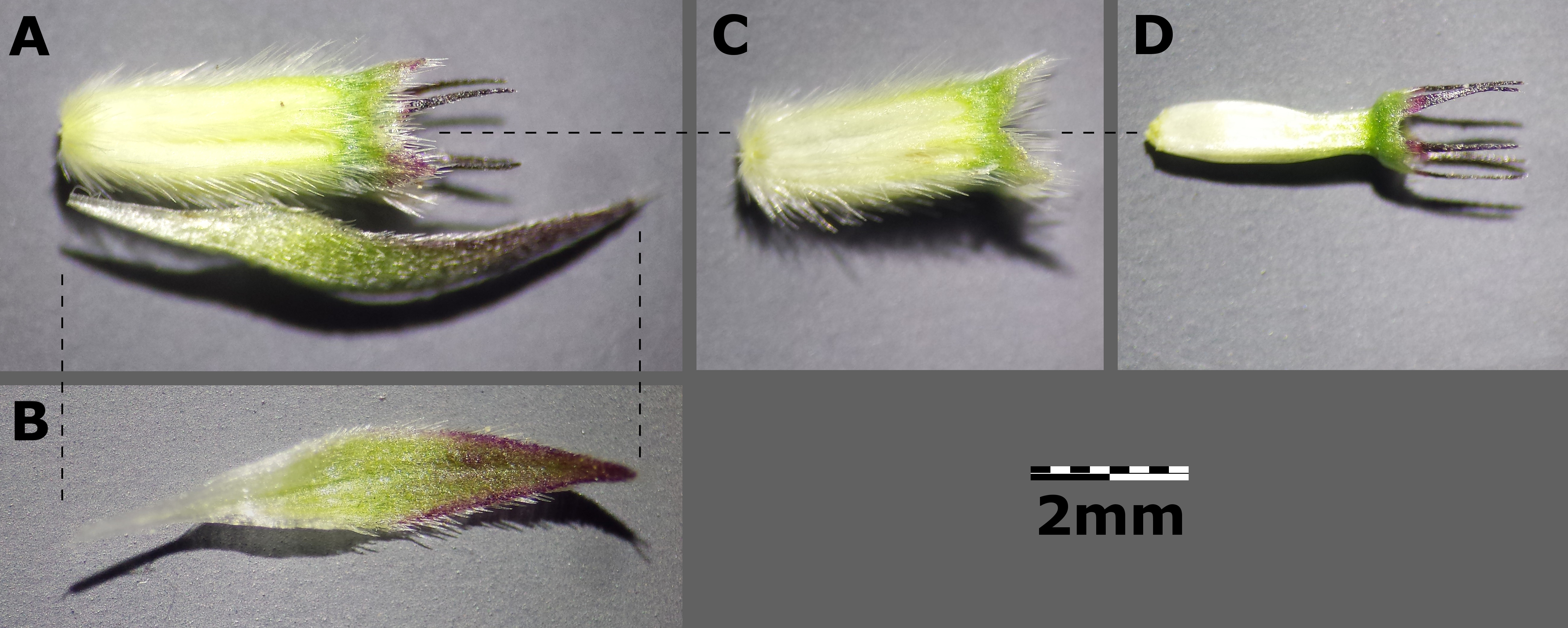 A: Flower with bract B: Bract C: Outer calyx with 4 corners D: Epigynous ovary and inner calyx with 5 bristles Taxonym: Succisa pratensis (ss Fischer et al. EfÖLS 2008 ISBN 978-3-85474-187-9) Location: near Kirchberg am Walde, district Gmünd, Lower Austria - ca. 550 m a.s.l. Habitat: poor grassland